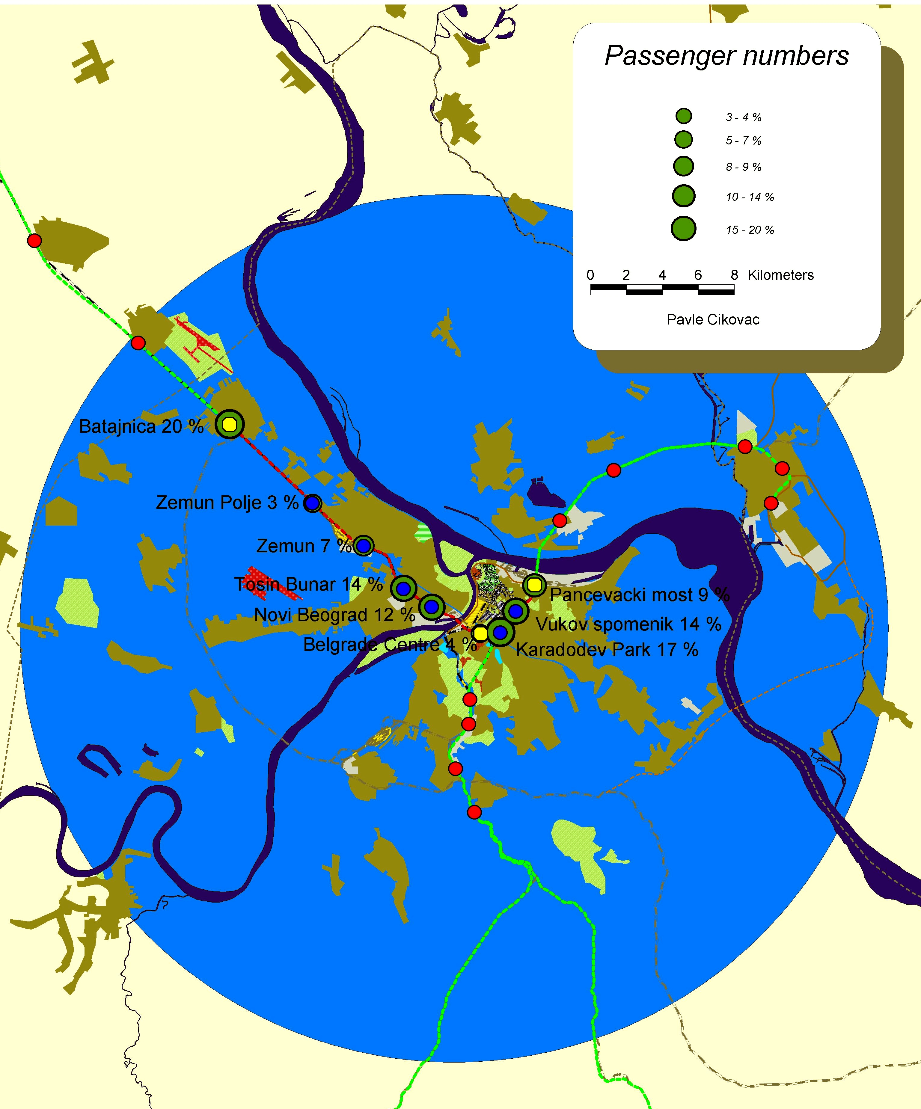 Passenger numbers on commuter rail Belgrade 2013